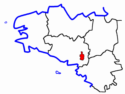 Description: Map for localisazion of cantons of Bretagne region in France Source: made by Hervé Tigier in april 2005 from another large map (published in 1990)